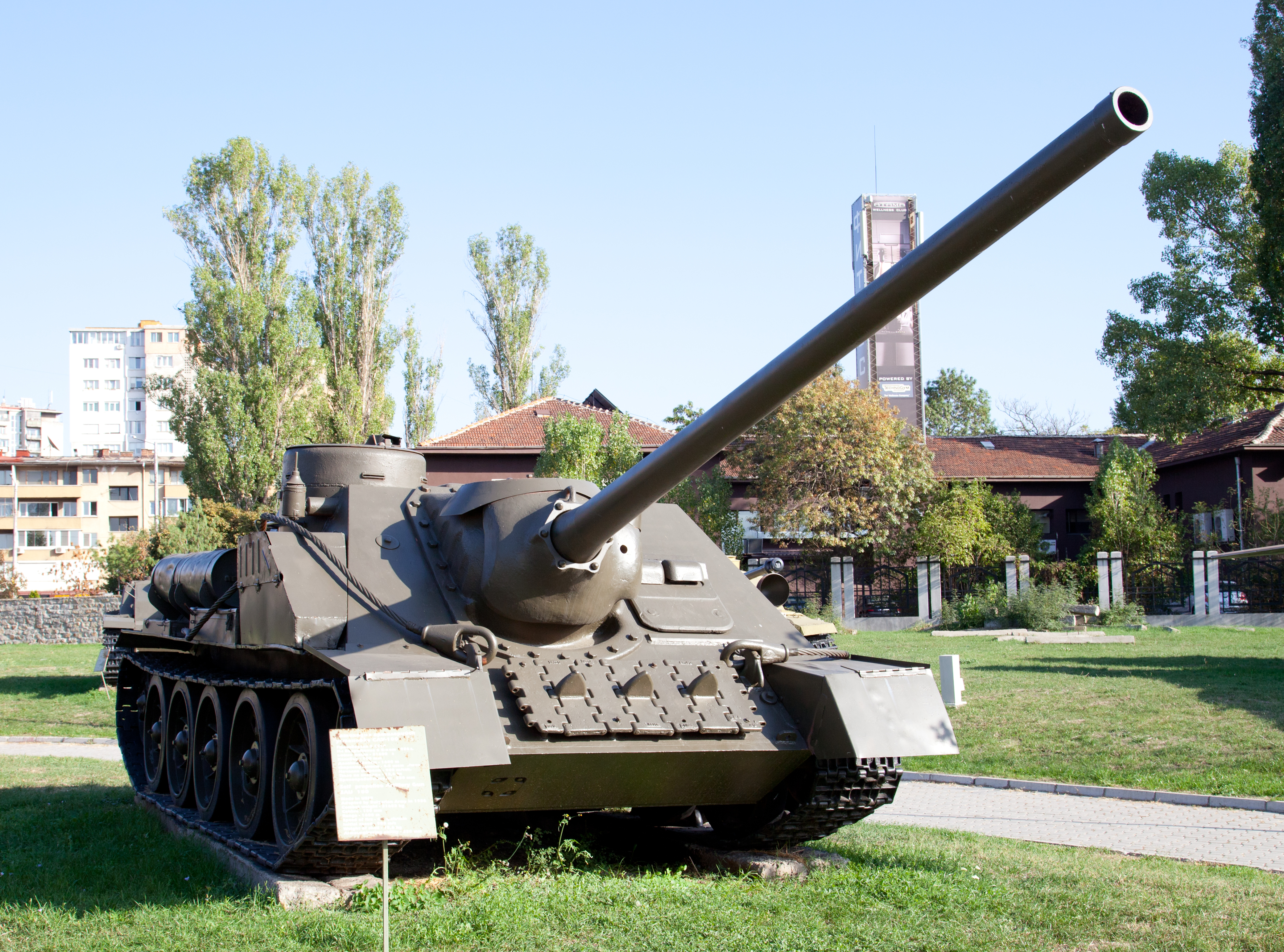 National Museum of Military History (Bulgaria)